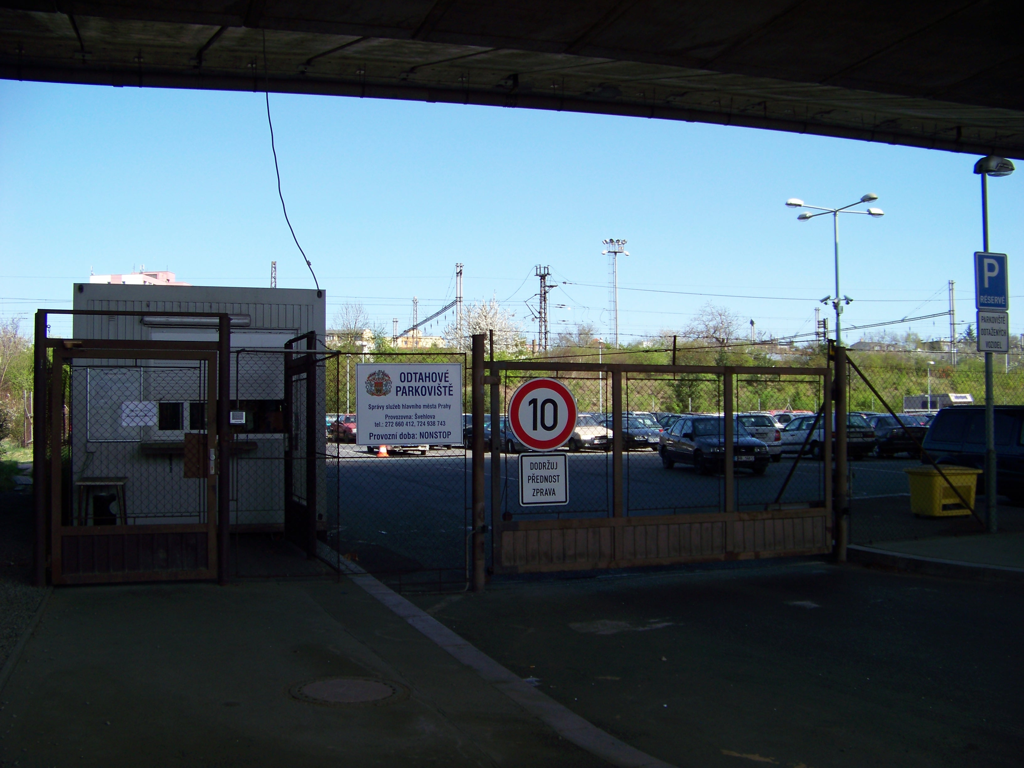 Prague-Záběhlice, the Czech Republic. Švehlova street, car park for removed vehicles.